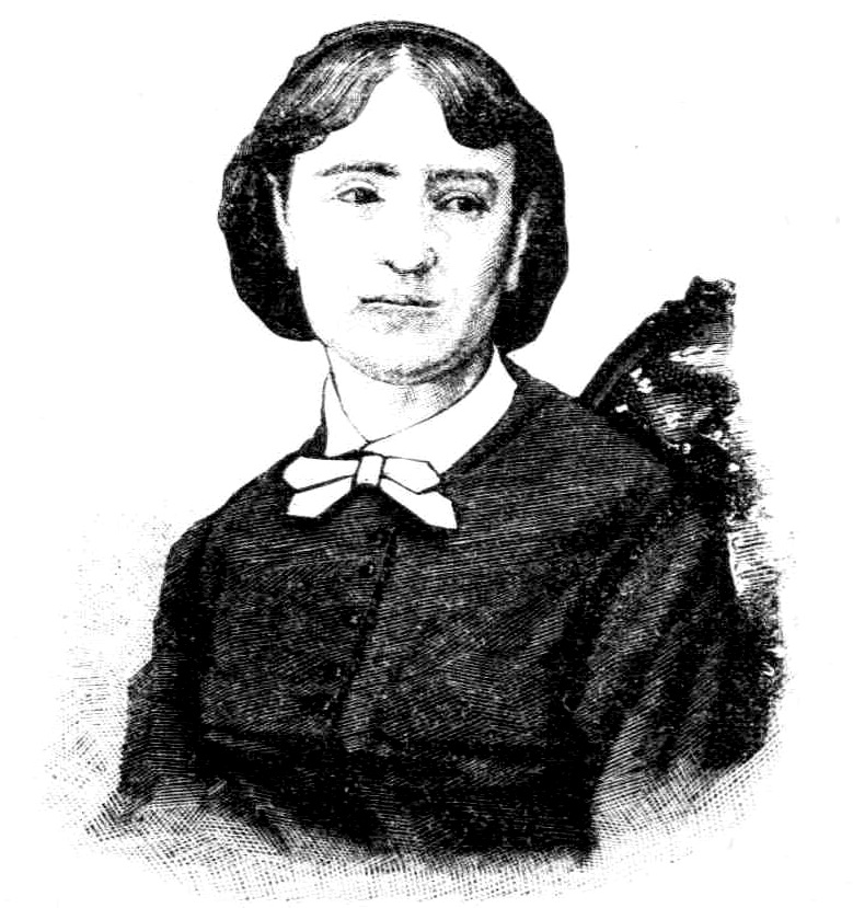 Eliza Soutsou (1837-1887): Greek writer, illustration from Imerologion Skokou 1888.